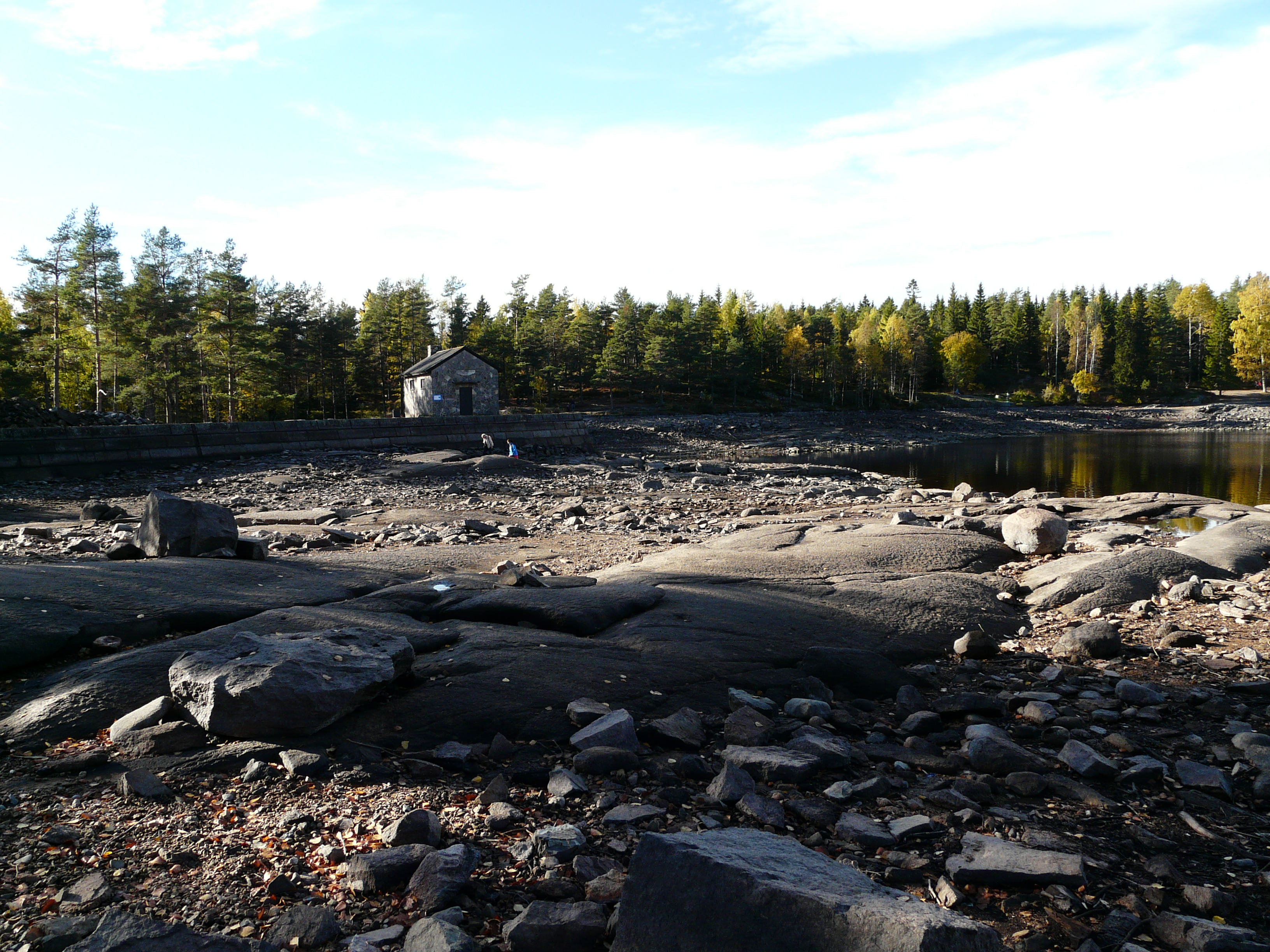 The dam at Steinbruvann, October 2013. The dam is being repaired.